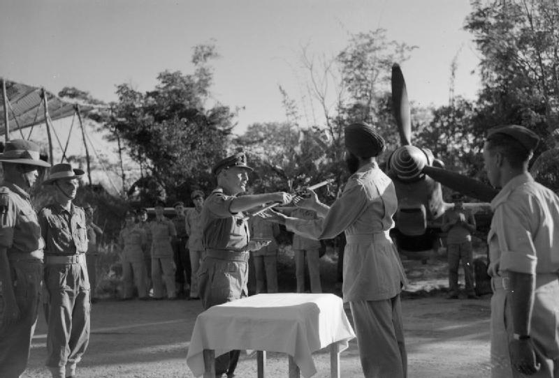 Air Ministry Second World War Official Collection Appears to Show Arjan Singh, C.O. of No. 1 Squadron IAF, being handed command.